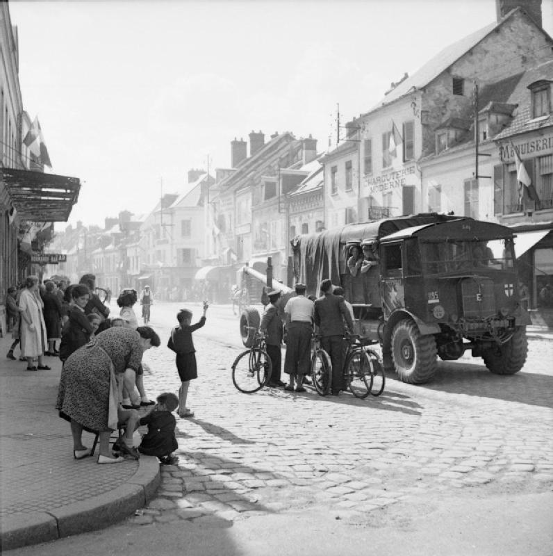 The British Army in North-west Europe 1944-45 5.5-inch gun and AEC Matador artillery tractor of 121st Medium Regiment during operations to cross the River Seine at Vernon, 25 August 1944.